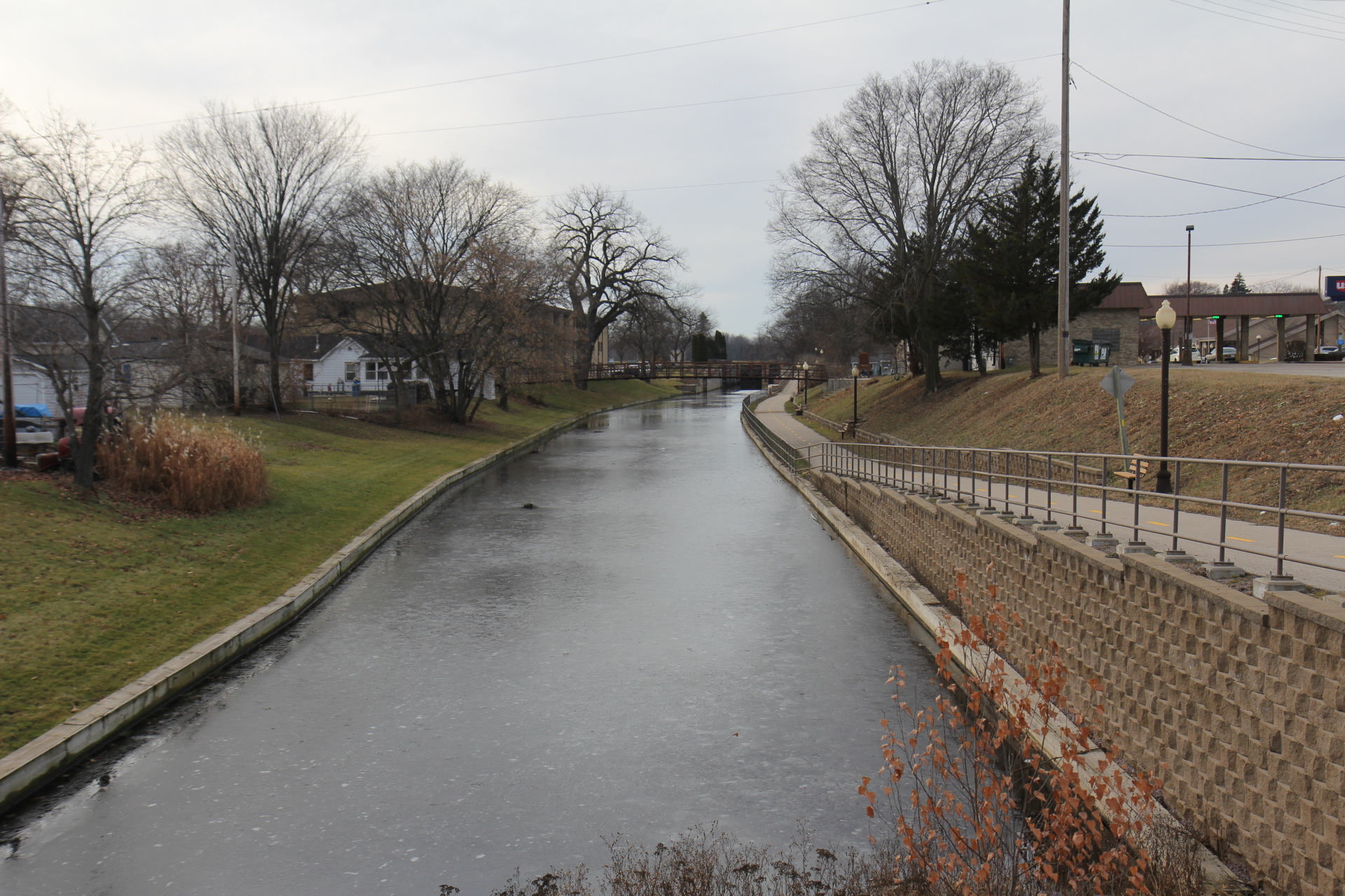 Looking west at the Portage Canal in downtown Portage, Wisconsin